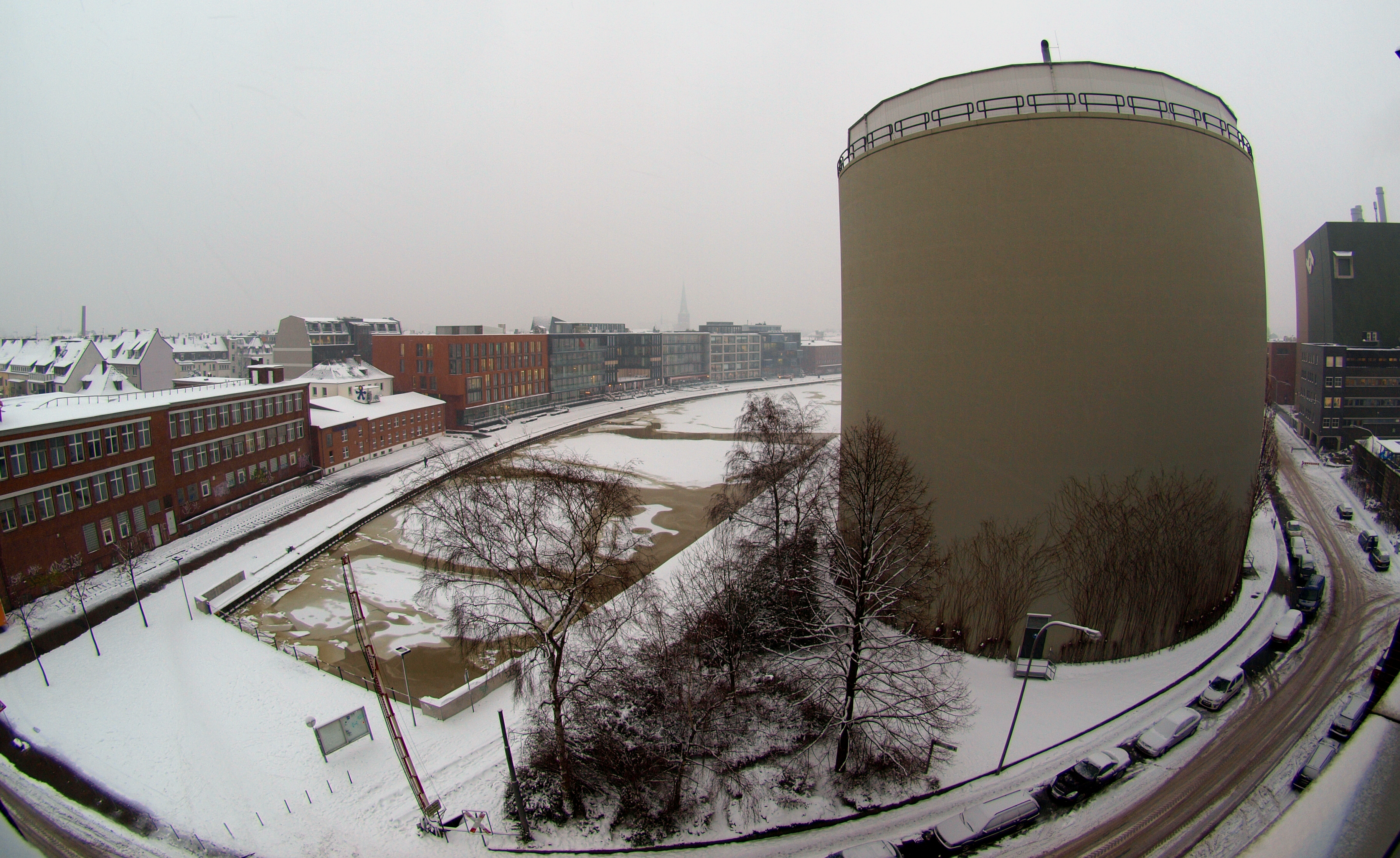 The harbor of Münster